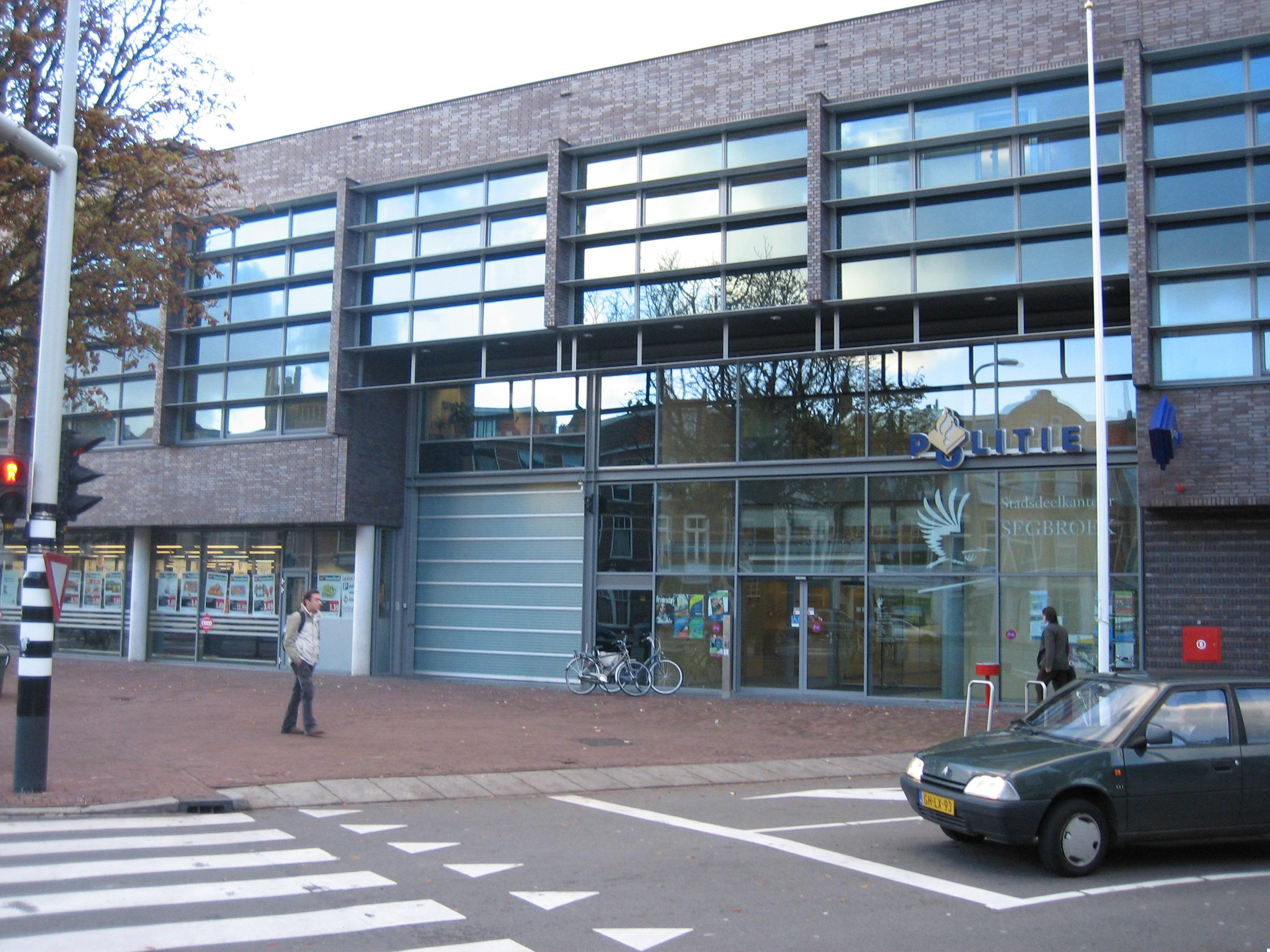 The office of the city part in Segbroek, The Hague.